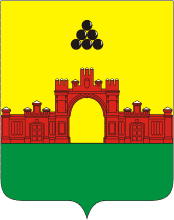 Krasnoarmeisk (Moscow oblast), coat of arms